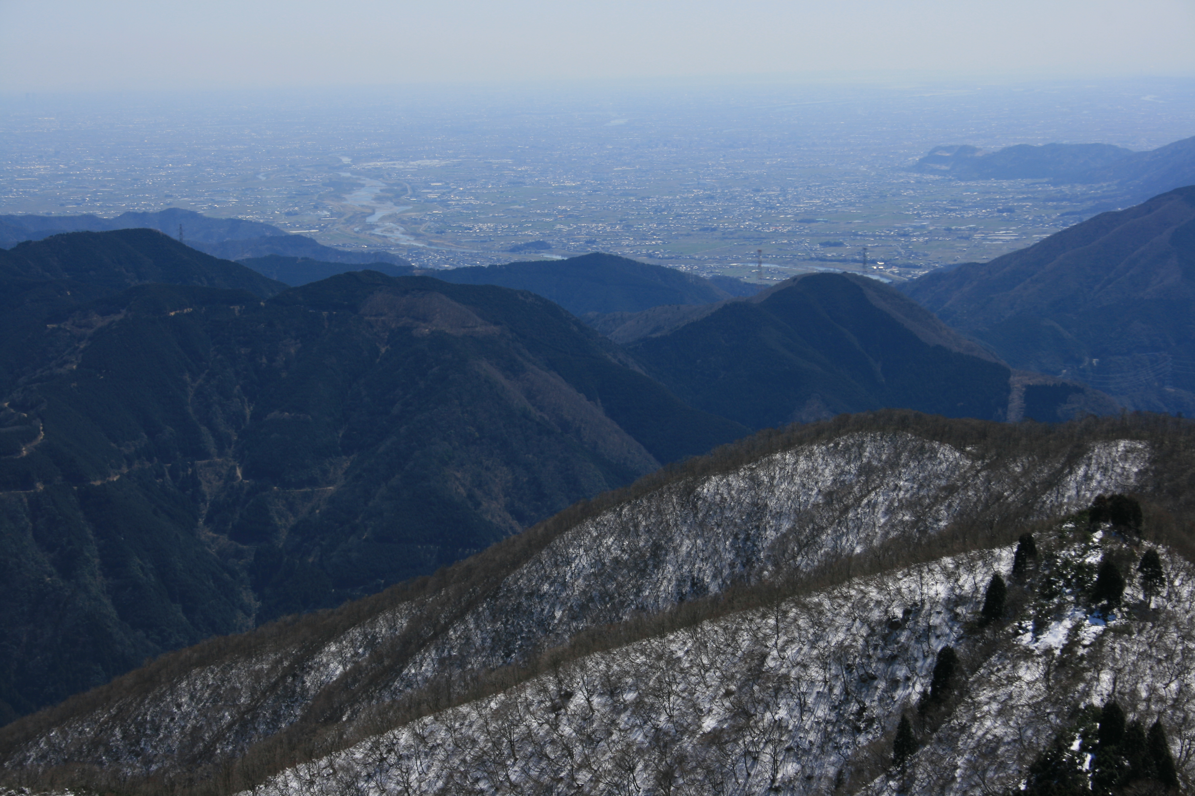 Nobi Plain and Ibi River seen from Ozugongen in Gifu prefecture, Japan.